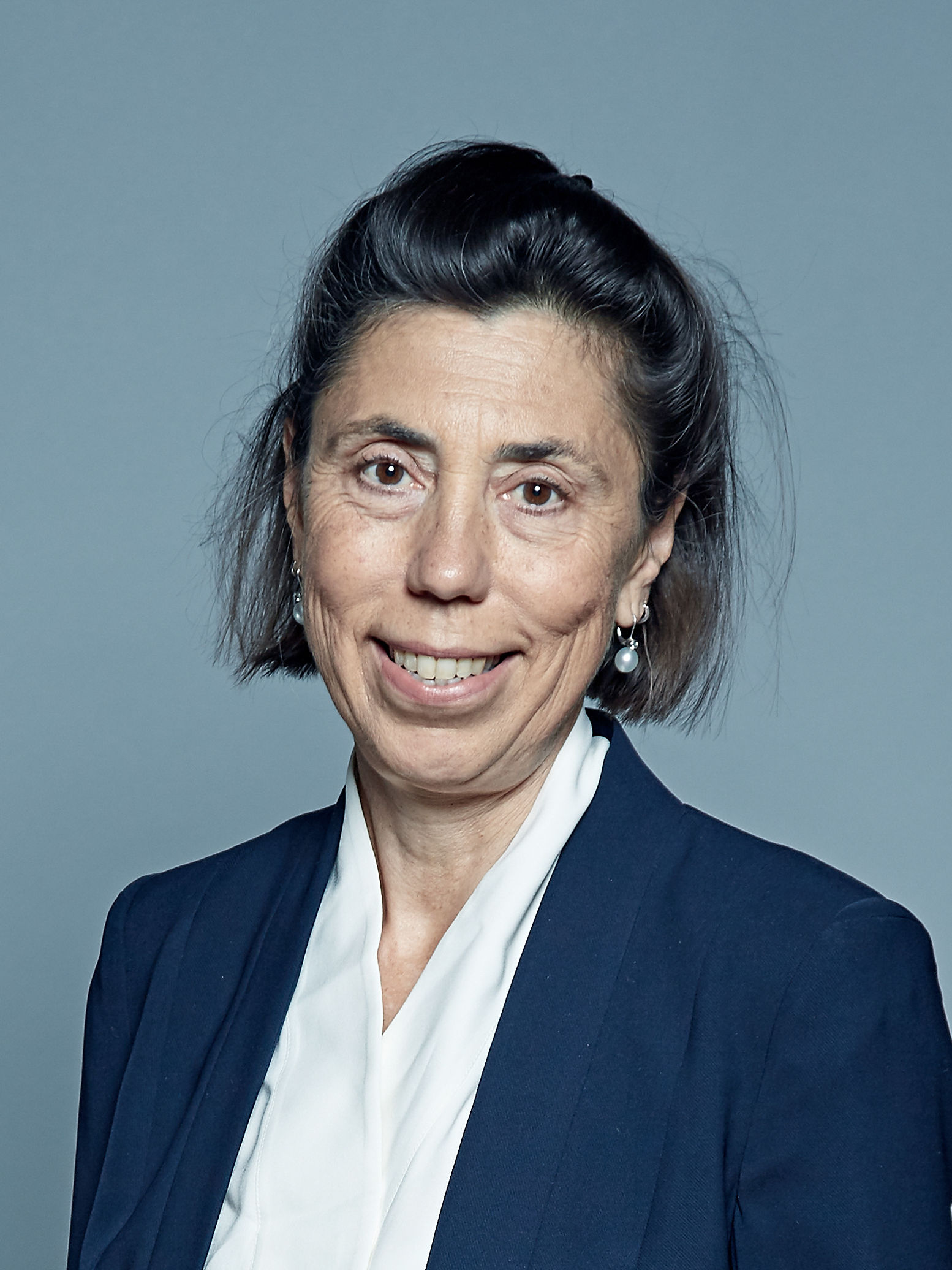 Official portrait of Baroness Barran